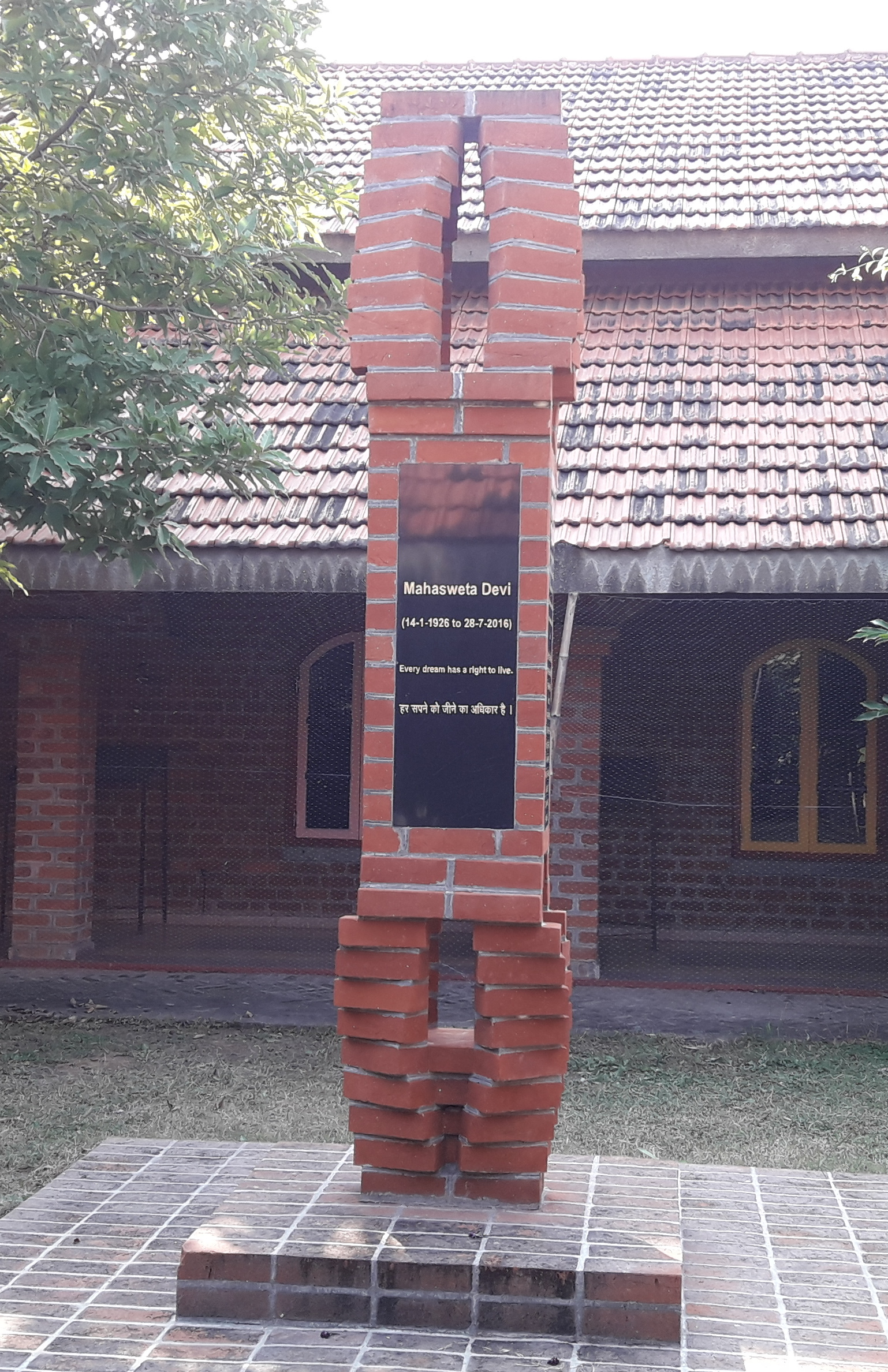 Mahasweta Devi memorial at Adivasi Academy, Tejgadh, Gujarat unveiled on 31 January 2017. The memorial was designed by architect Karan Grover and constructed by local mason Ramesh Rathwa.